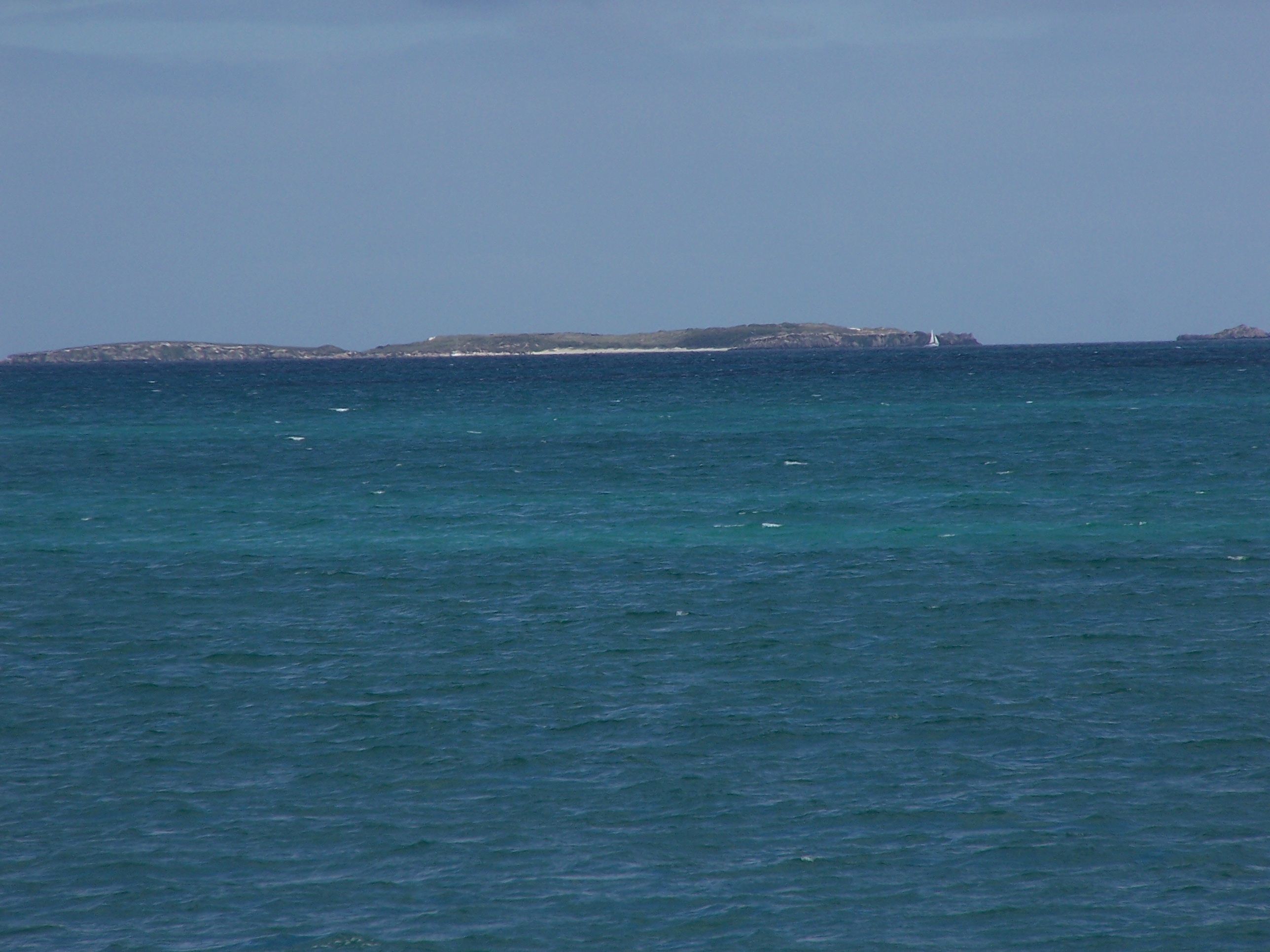 Carnac Island, photo taken from C Y O'Connor Beach, Western Australia taken using 70mm lens at max zoom.